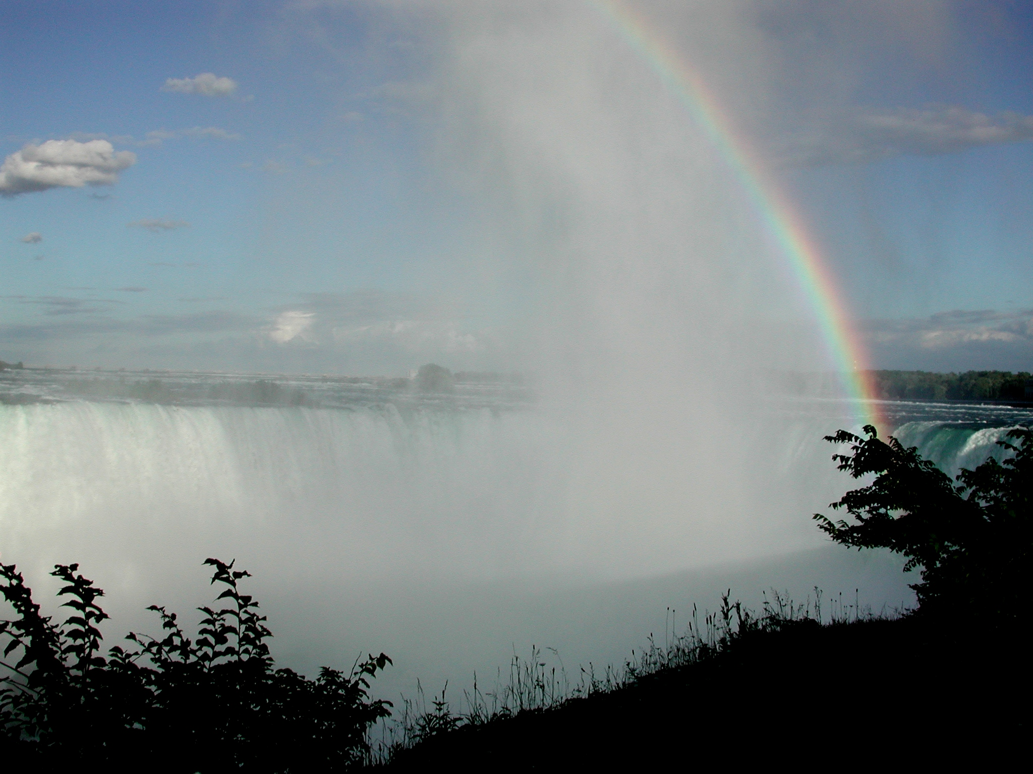 Horseshoe Falls at Niagara